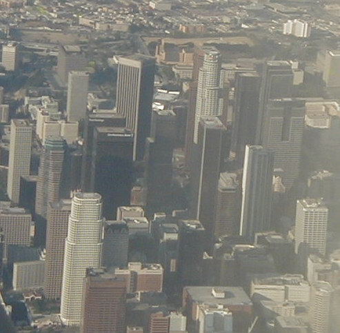 Kurewsko zajebane miejskim smogiem